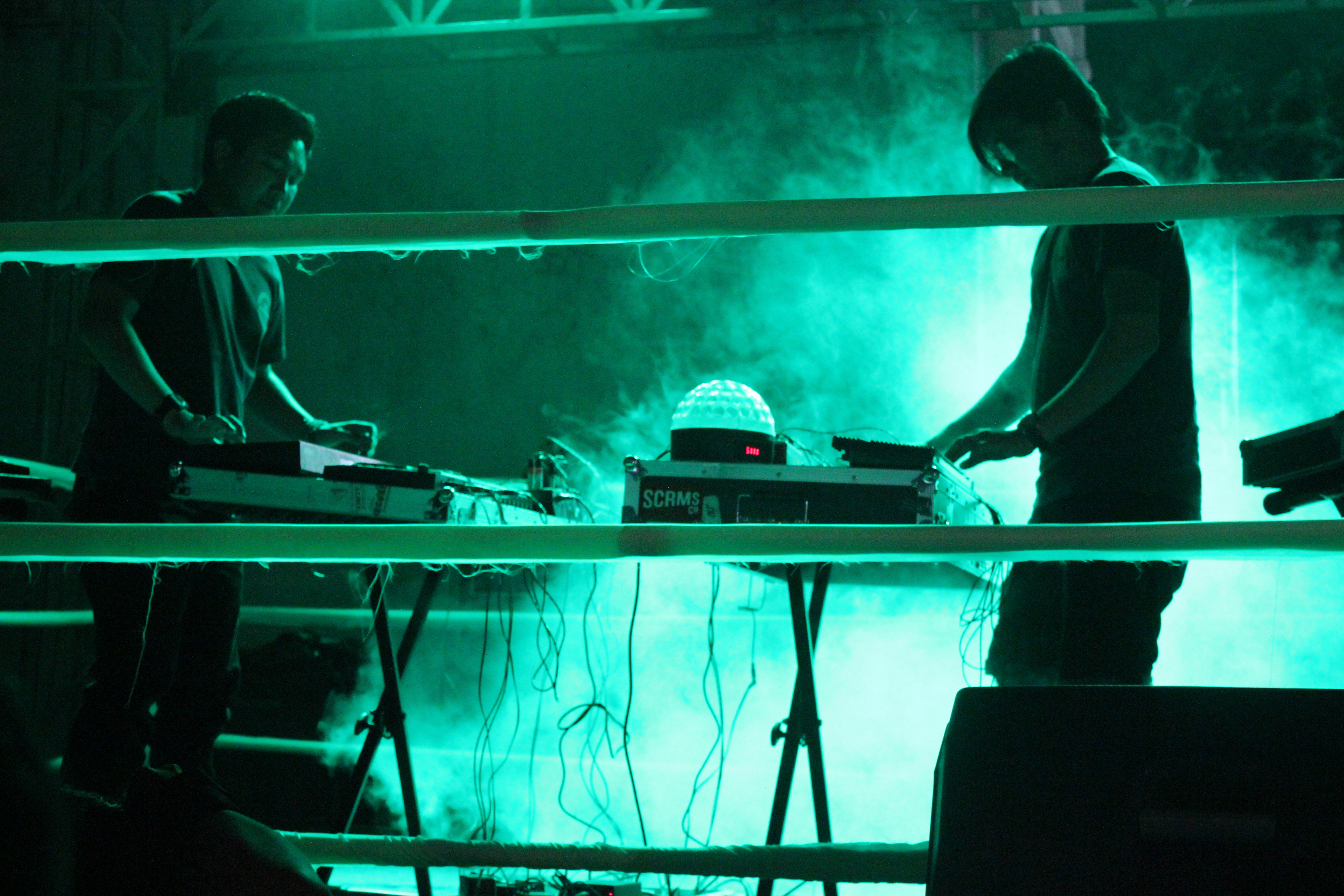 Bottlesmoker performed at Screamous distro opening at Malang, East Java, Indonesia